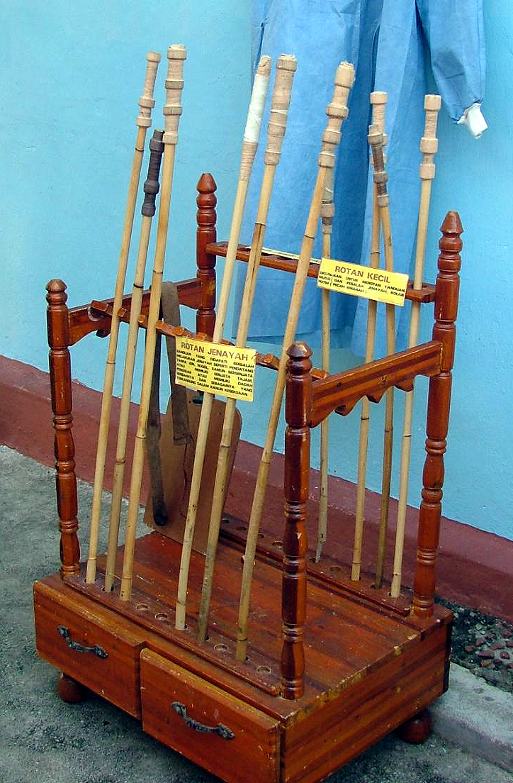 Photograph taken on September 6, 2005 The description reads "Rotan Jenayah" (Crime Rotan) and "Rotan Kecil" (Small Rotan).